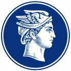 Hellenic Philotelic Society new logo. The HPS Board has granted the license to be fairly used when in reference with the HPS